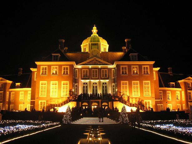 Palace Huis Ten Bosch. Palace in Nagasaki,Japan., Huis Ten Bosch.